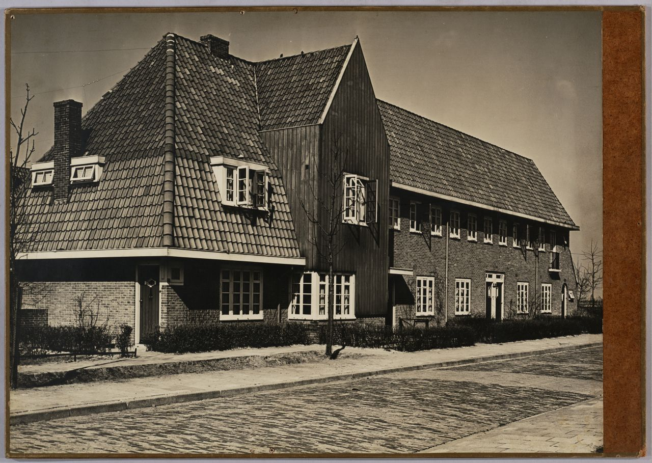 Woonhuizen Tuindorp Nieuwendam, Ilpendammerstraat, Amsterdam. Architect: J.Boterenbrood. Fotograaf: onbekend. Collectie NAi / TENT_n360 URL van deze afbeelding: Meer foto's uit deze collectie kunt u bekijken in de Collectiedatabase van het NAi. Niet van alle gebouwen en interieurs zijn alle gegevens bekend. Heeft u meer informatie of weet u het adres van een gebouw? Laat dan een reactie achter (als u ingelogd bent bij Flickr) of stuur een mailtje naar: Al deze foto's zijn gemaakt in de eerste helft van de twintigste eeuw. Wij zijn benieuwd hoe deze gebouwen er vandaag de dag uitzien. Heeft u recente foto's van deze gebouwen of locaties, voeg ze dan toe als commentaar. U kunt een eigen Flickr-foto toevoegen door de URL ervan tussen vierkante haken in het commentaarveld te plakken. Houses Nieuwendam Garden City, Ilpendammerstraat, Amsterdam. Architect: J. Boterenbrood. Photographer: unknown. NAI Collection / TENT_n360 Persistent URL: For more photographs from this collection, please visit the NAI Collection Database You can help us gain more knowledge on the content of our collection by adding a comment with information. If you do not wish to log in, you can write an e-mail to: All these pictures are taken in the first half of the twentieth century. We are curious to learn how these buildings look like today. If you have recently taken photographs of these buildings or locations, please add them to your comment. If you'd like to include a Flickr photo, simply copy and paste its URL between square brackets in the commentary-field.